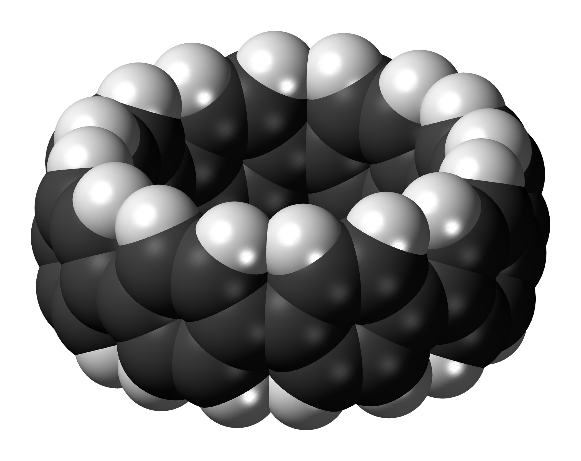 Space-filling model of the cycloparaphenylene molecule, a hydrocarbon known for being the smallest possible carbon nanotube. Colour code: Carbon, C: black Hydrogen, H: white